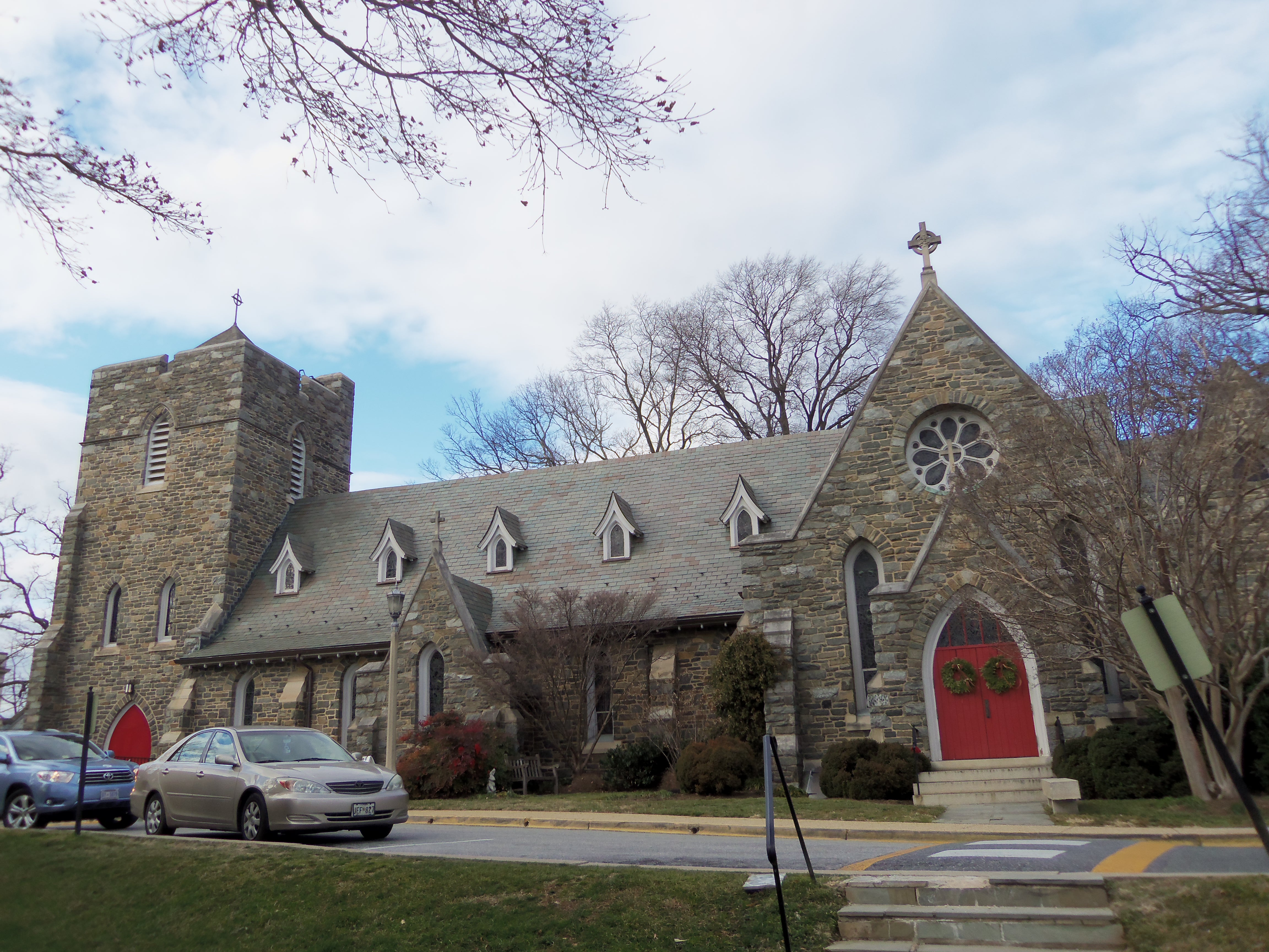 St. Alban's Episcopal Church located near the National Cathedral in Washington, DC.